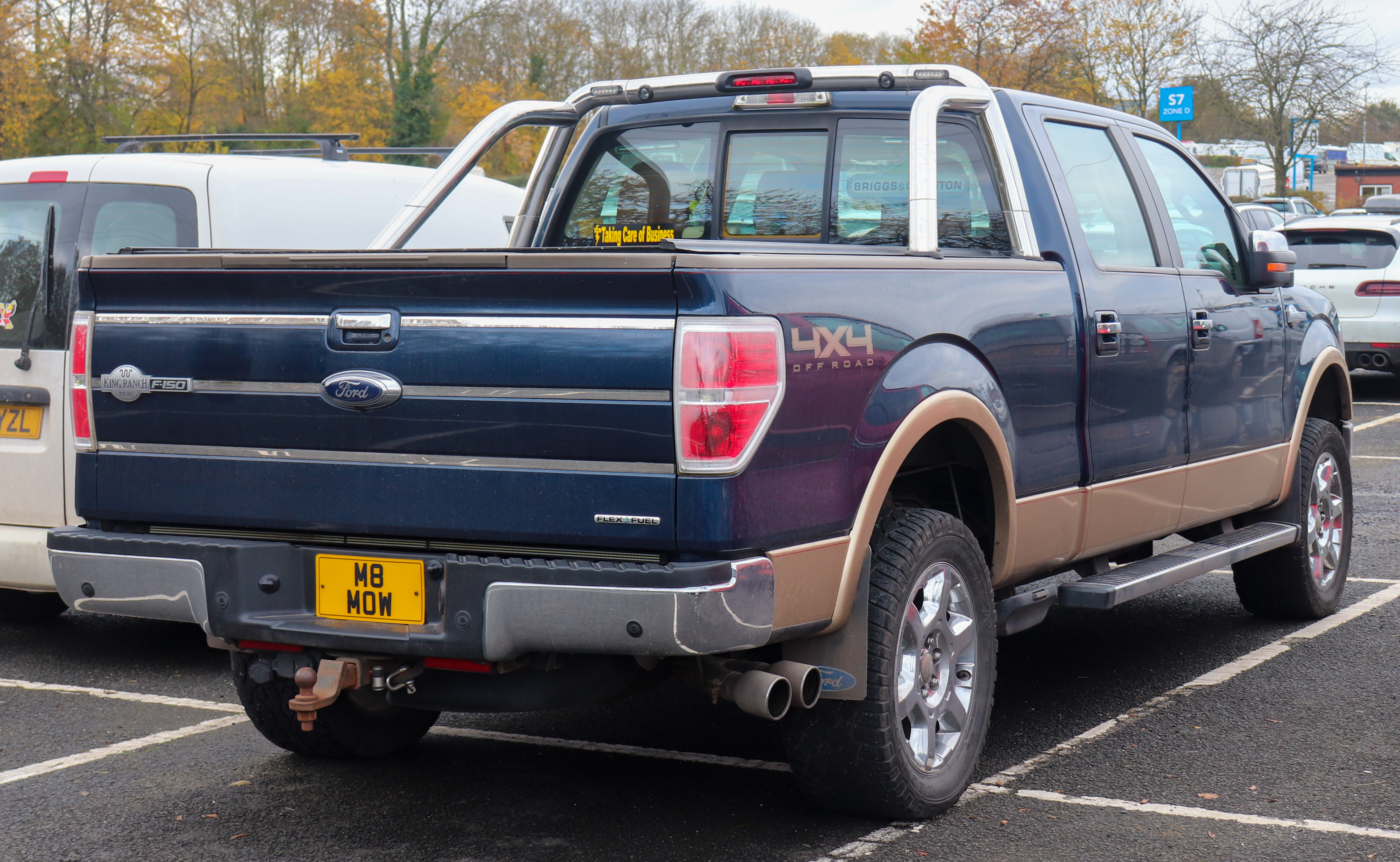 2013 Ford F-150 King Ranch 5.0 Rear Taken in the NEC Car Park, Birmingham